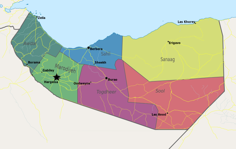 Map of Somaliland.